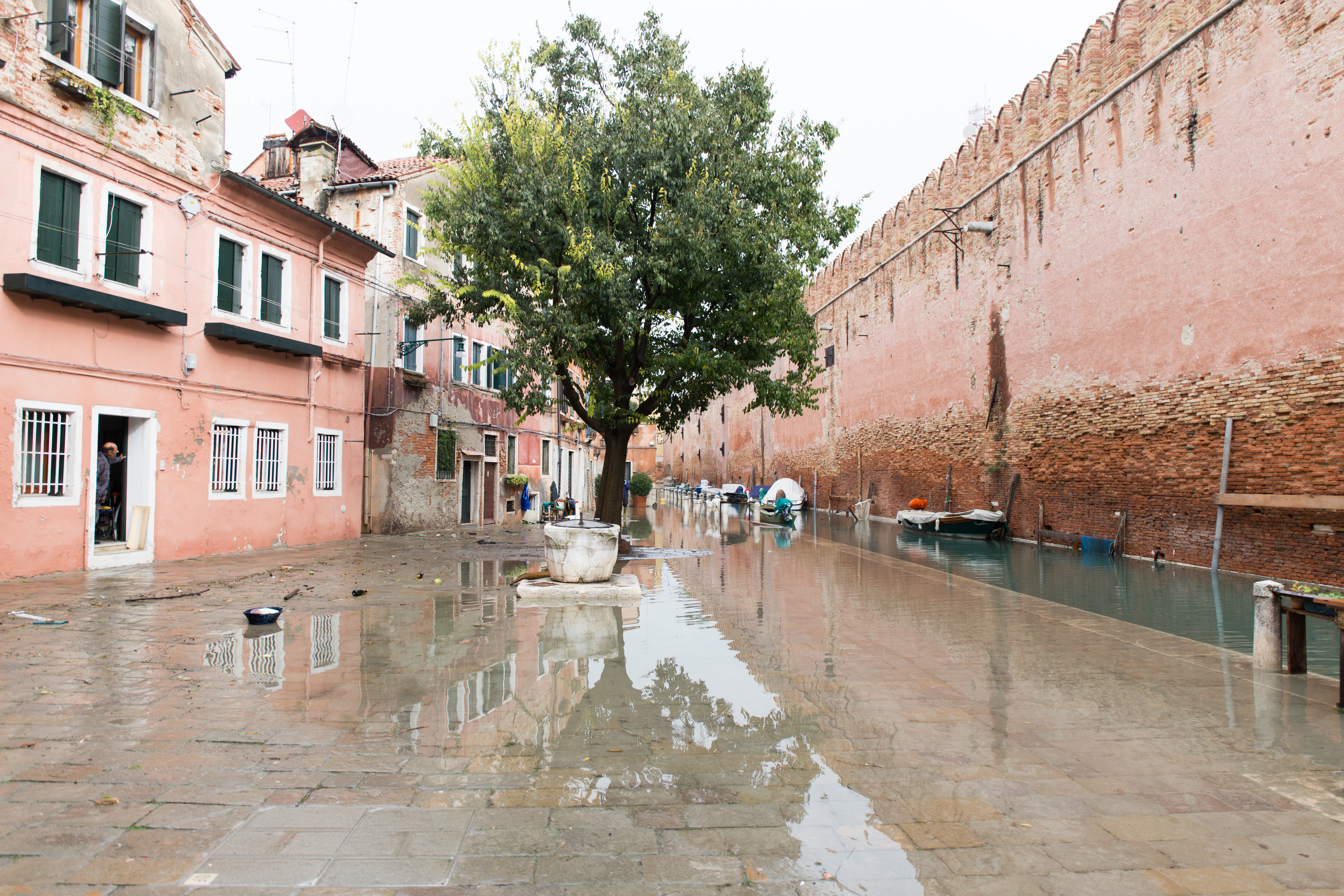 Acqua alta Venice 2019